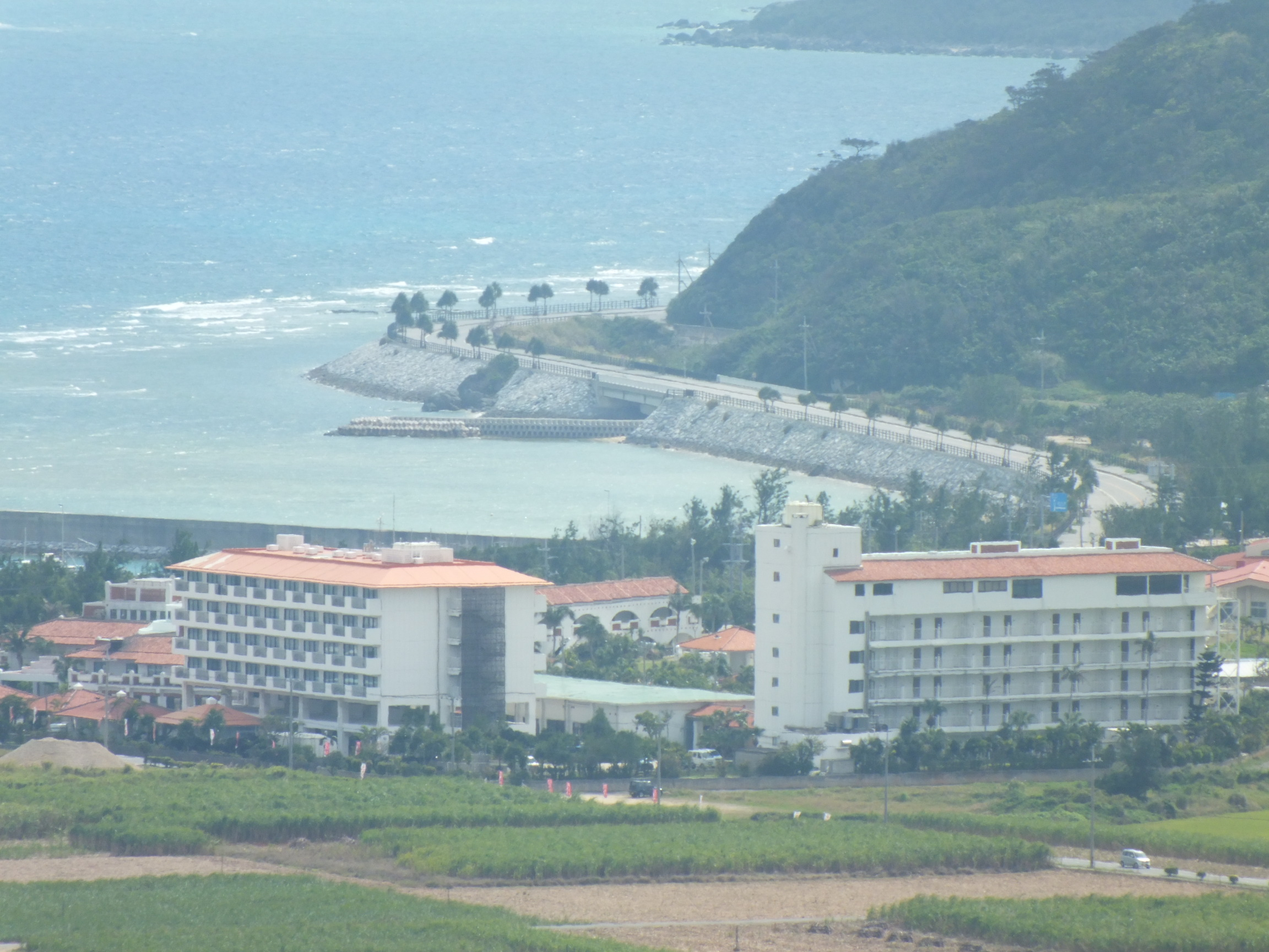 Īfu Beach seen from Tounnaha-jō, Kumejima, Okinawa Prefecture, Japan.